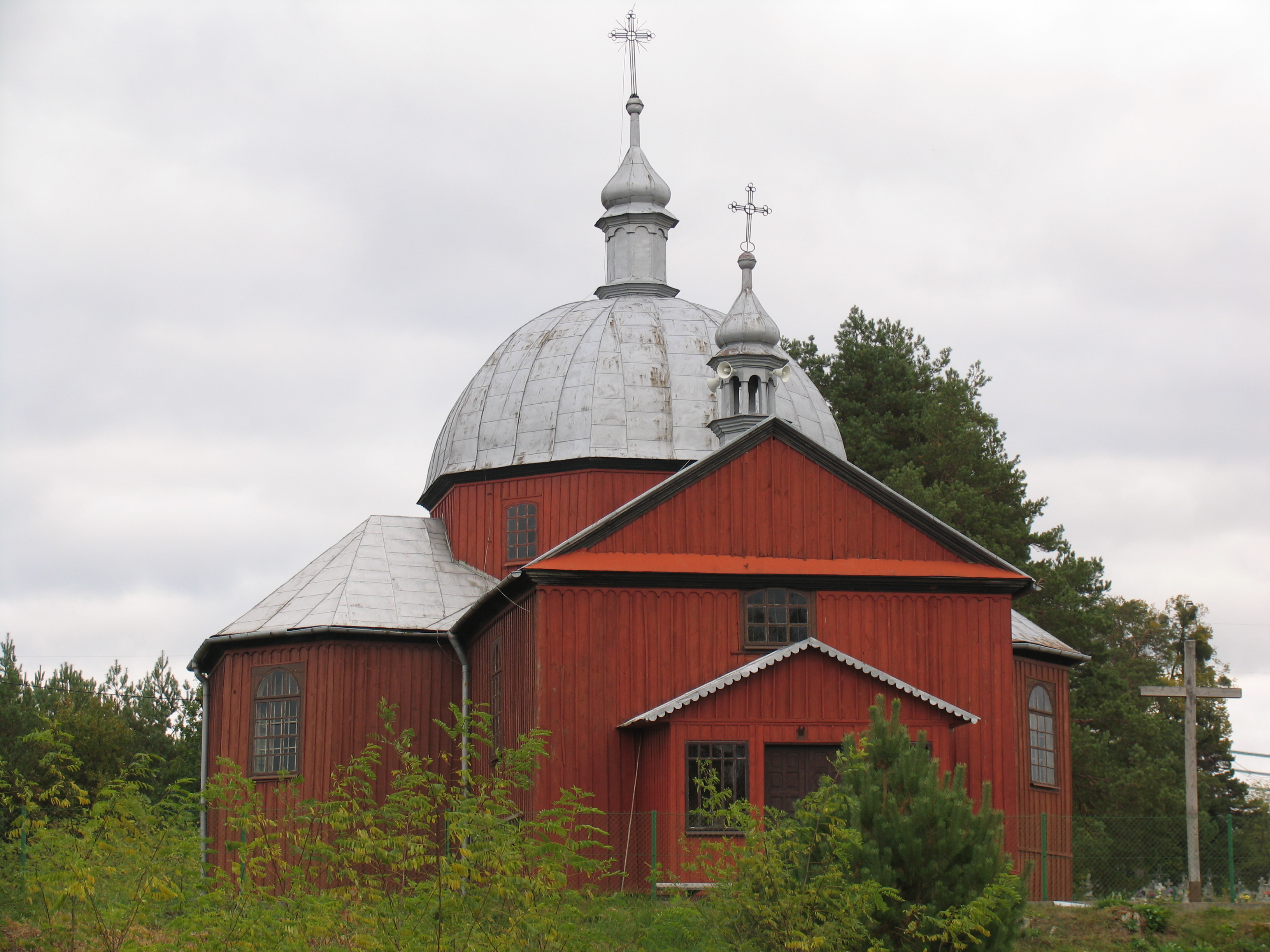 Saint Lawrence church in Szczutków (former Saint Demetrius, Greek Catholic church)